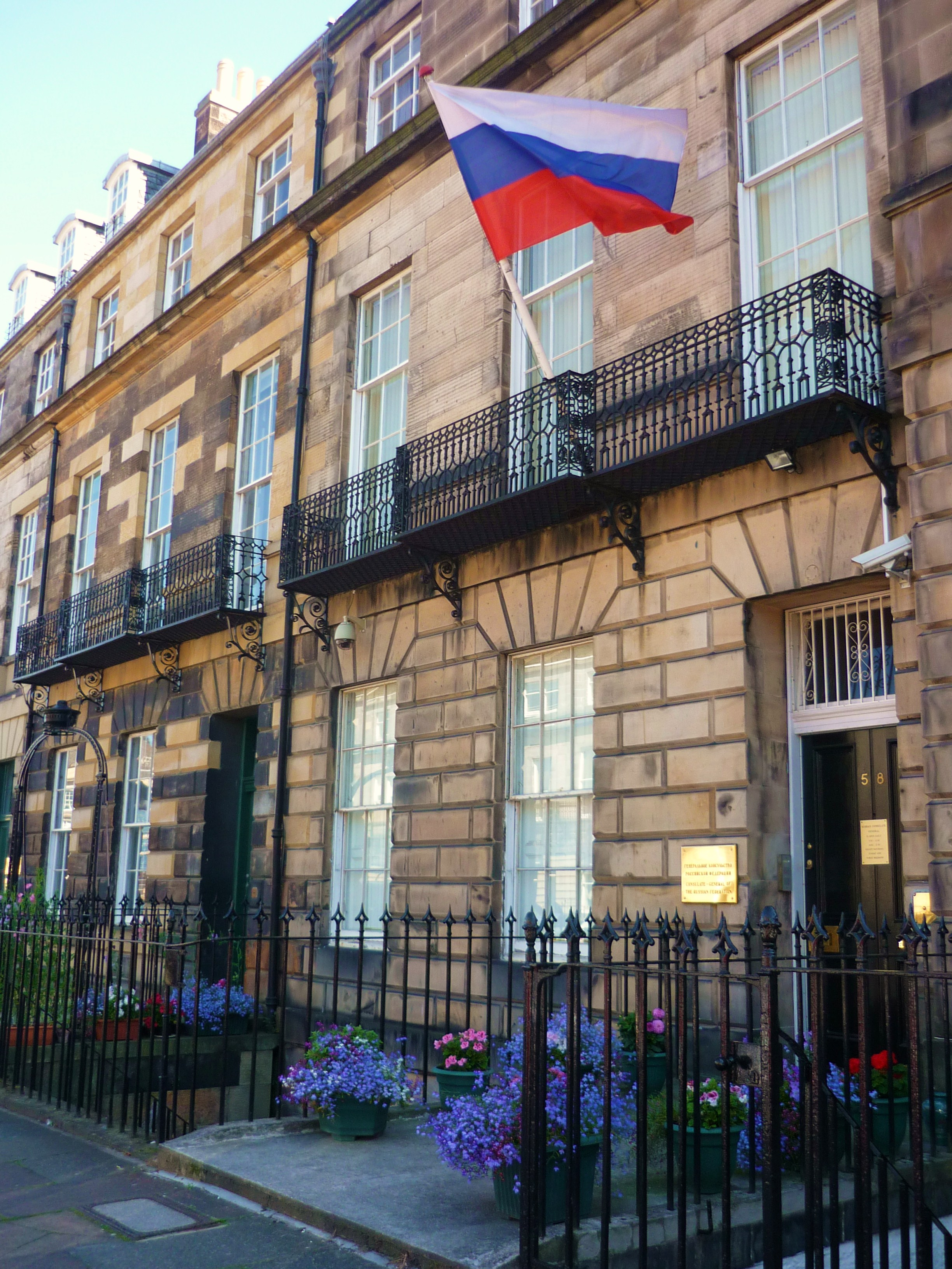 Russian Consulate, Edinburgh